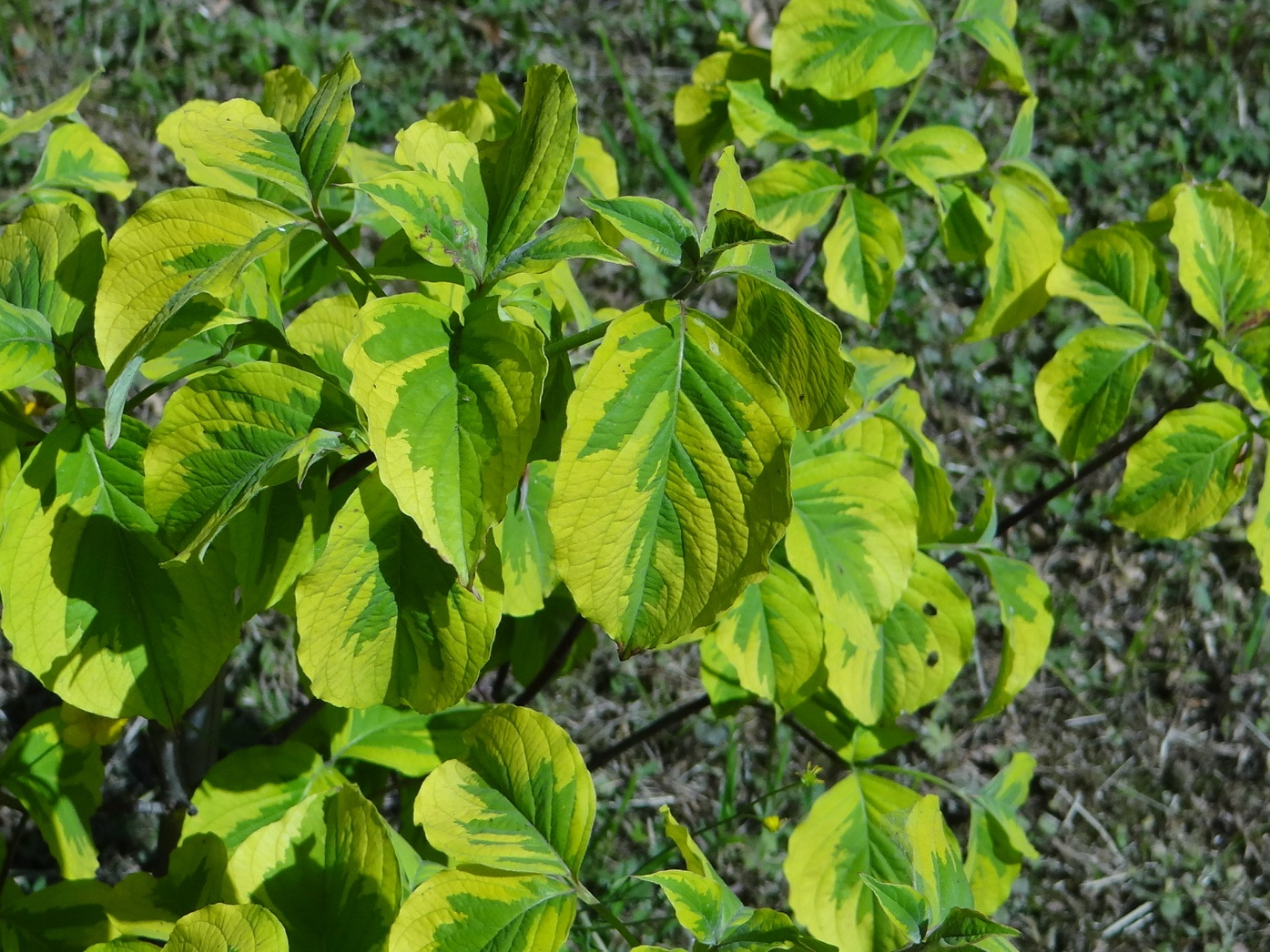 Cornus florida 'Rainbow'